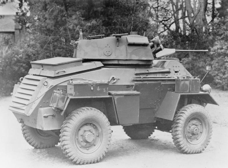 Tanks and Afvs of the British Army 1939-45 Humber Mk III armoured car